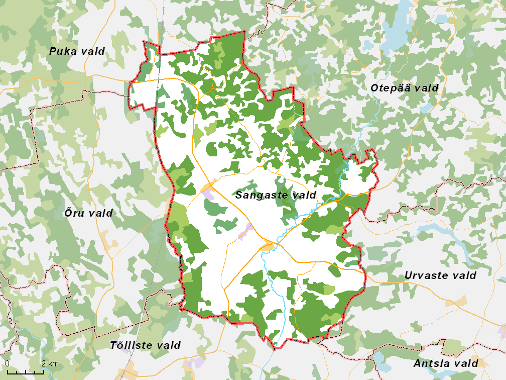 Map of municipality in Estonia